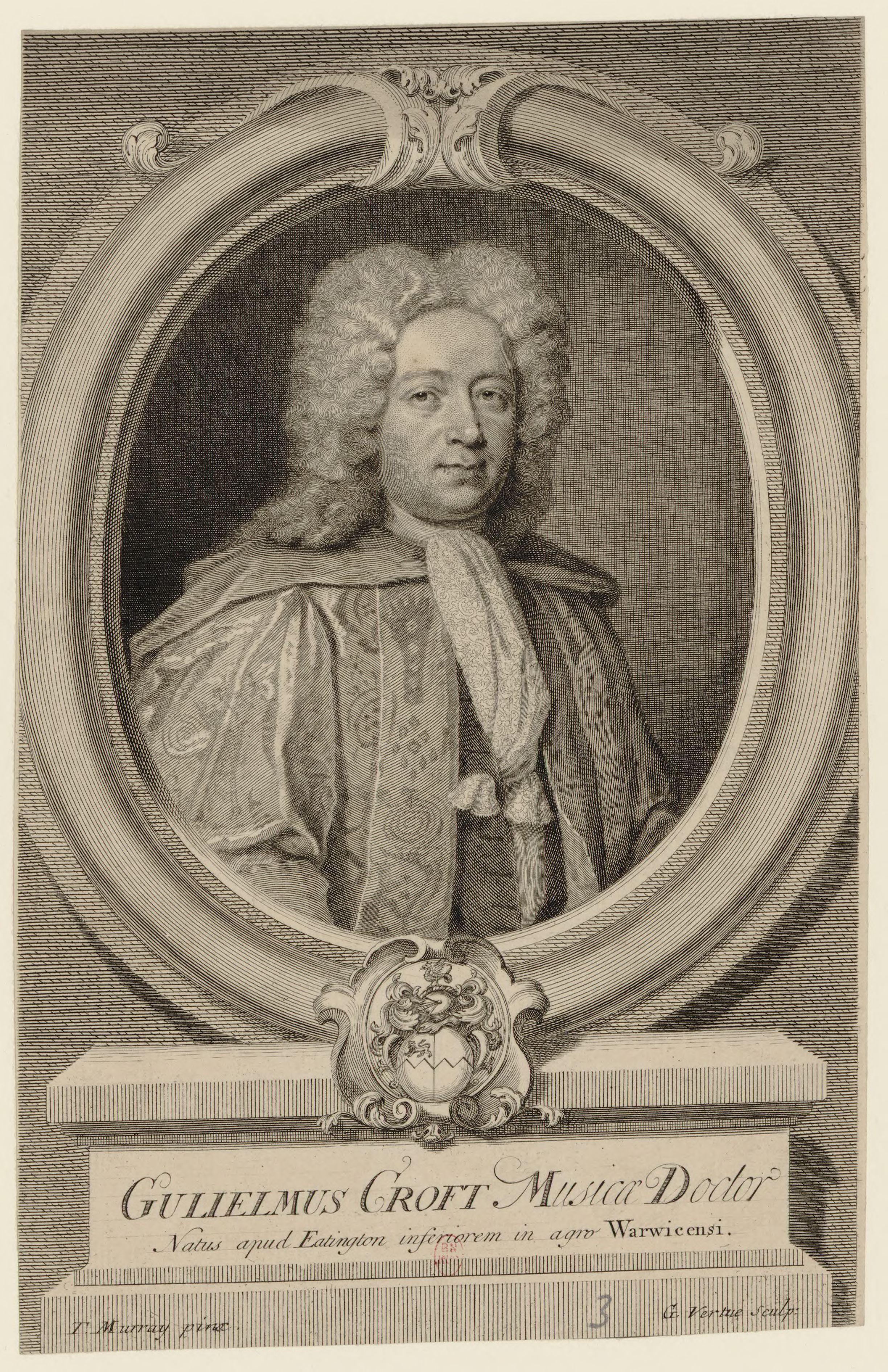 William Croft (1678-1727) - british baroque composer